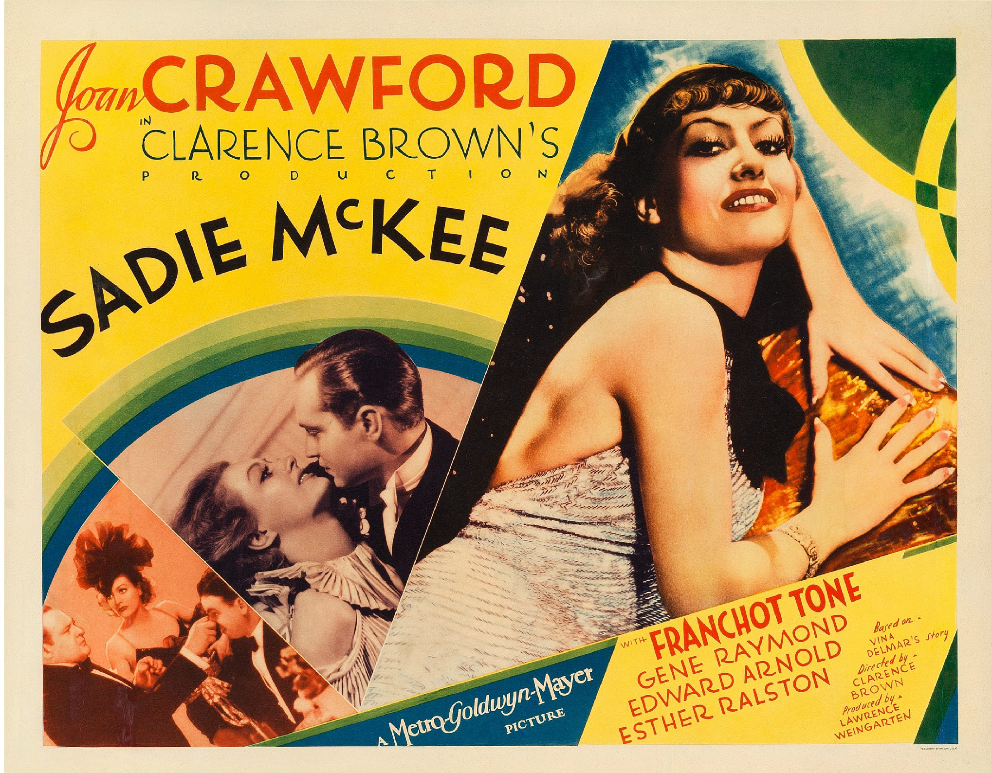 Poster for the 1934 film Sadie McKee.